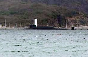 Type 094 SSBN PLA Navy